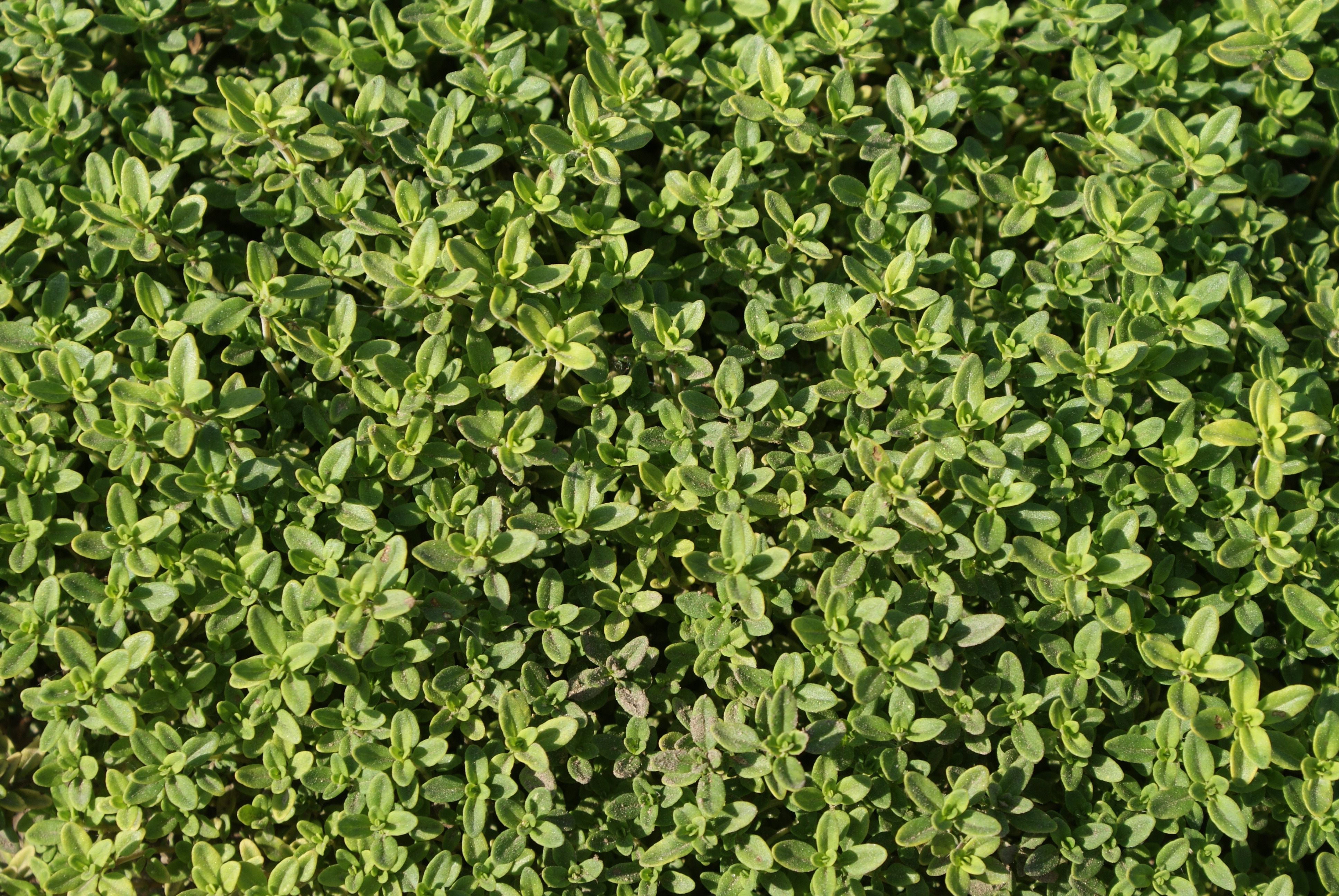 Thymus alpestris f. aurea in Botanical garden, Minsk